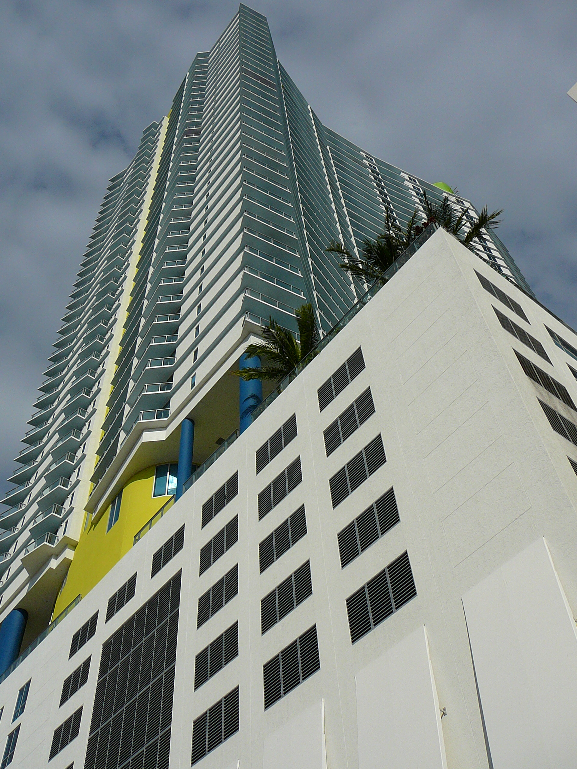 Digital photo taken by Marc Averette. Latitude on the River main tower in downtown Miami, Florida 12-8-2007.